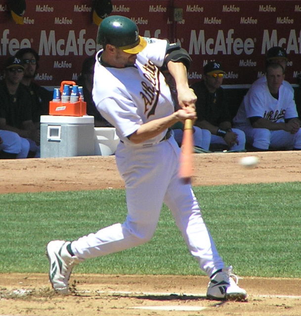 Photo by Justin Lafferty 00:10, 7 December 2006 . . Jlaff . . 609×640 (225 KB) move approved by Common Good.